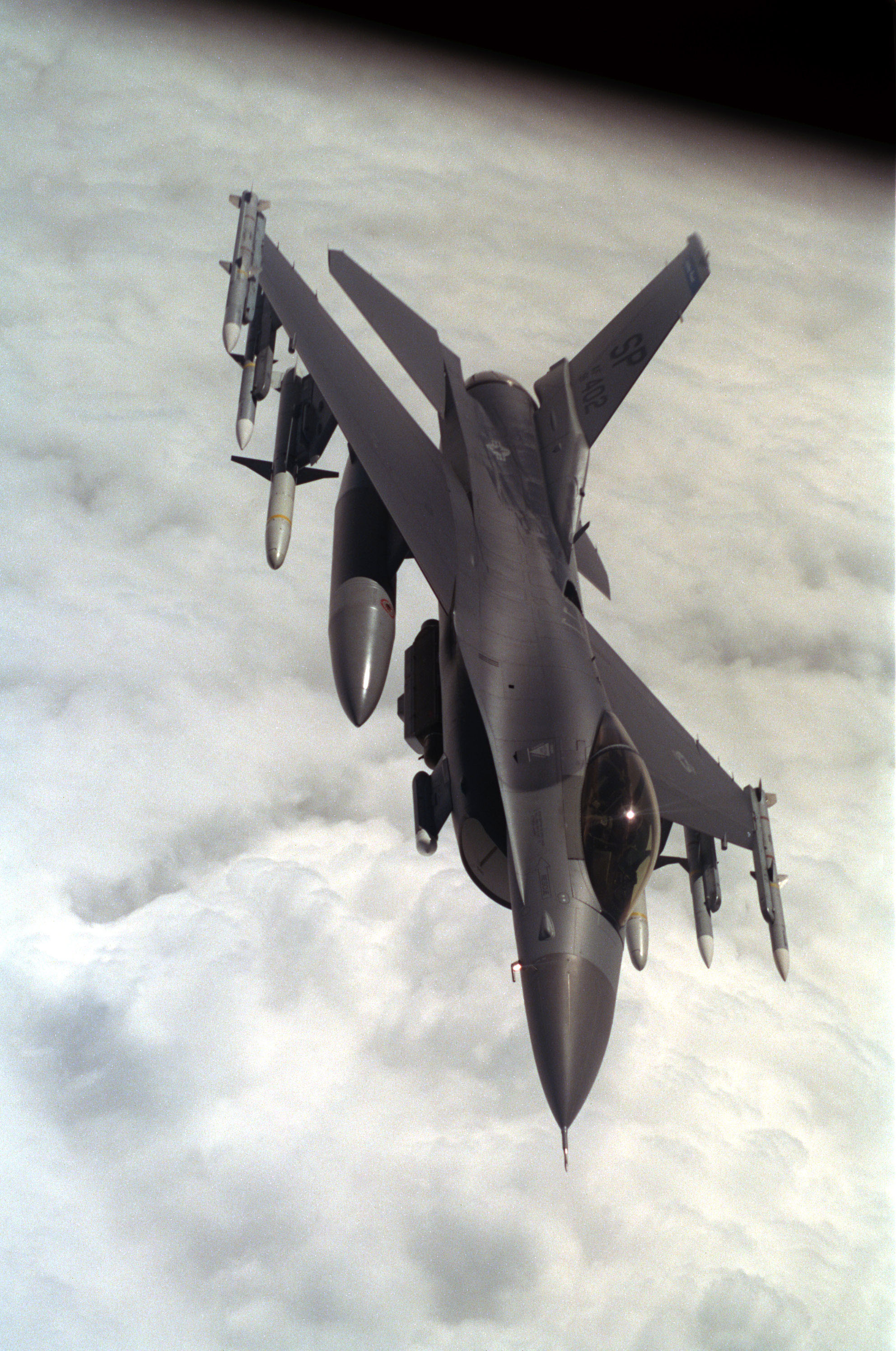 An F-16C/J Fighting Falcon breaks away from a KC-135R Stratotanker after in-flight refueling during NATO Operation Allied Force on March 31, 1999. Operation Allied Force is the air operation against targets in the Federal Republic of Yugoslavia. The Fighting Falcon is armed with AIM-120 Advanced Medium-Range Air-to-Air Missiles for self protection and AGM-88 Highspeed Anti-Radiation Missiles on the inboard stations to destroy radar equipped air defense systems. The Fighting Falcon is from the 52nd Fighter Wing based at Spandahlem Air Base, Germany.